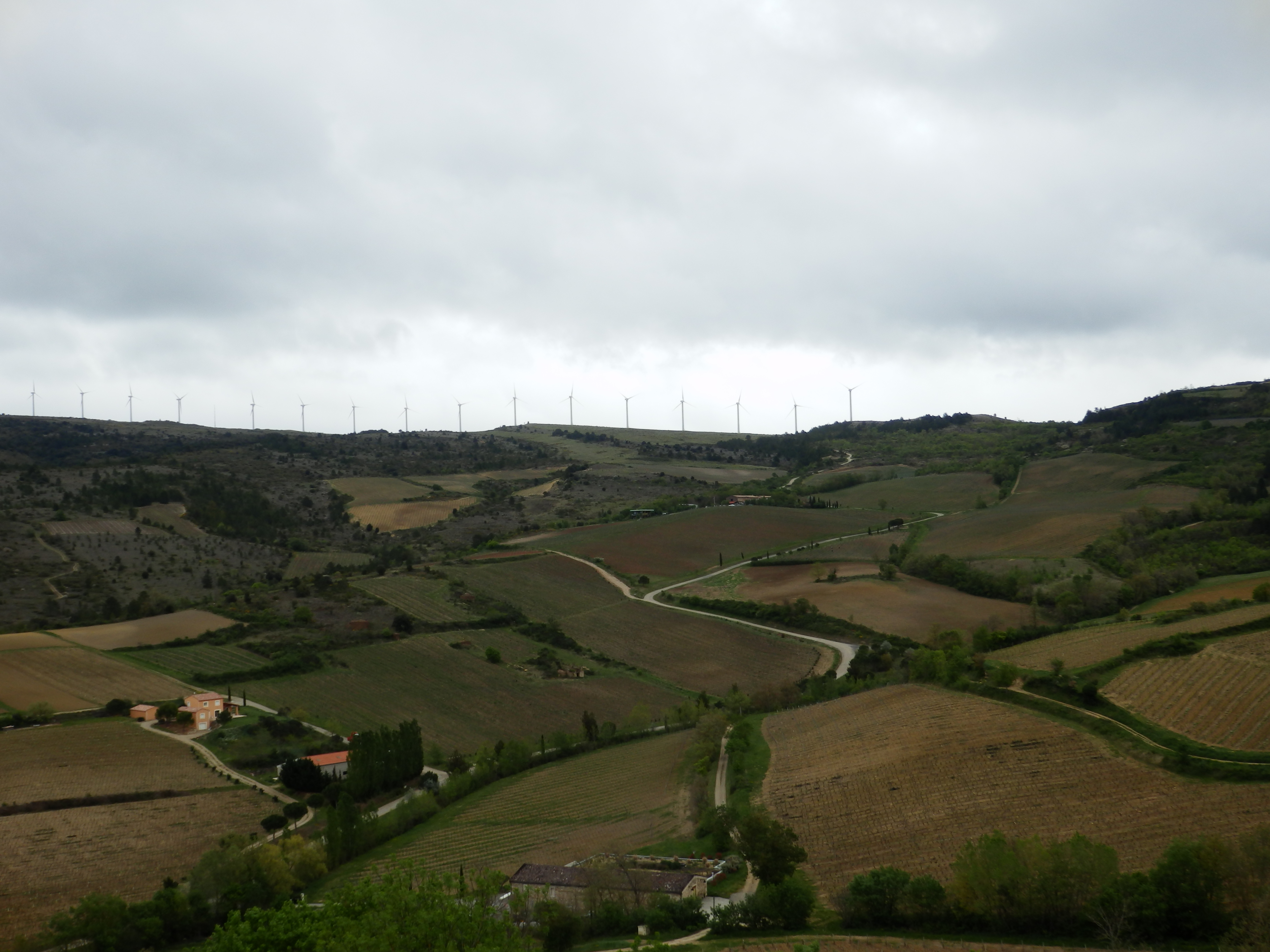 Landscape in Roquetaillade, Aude, France